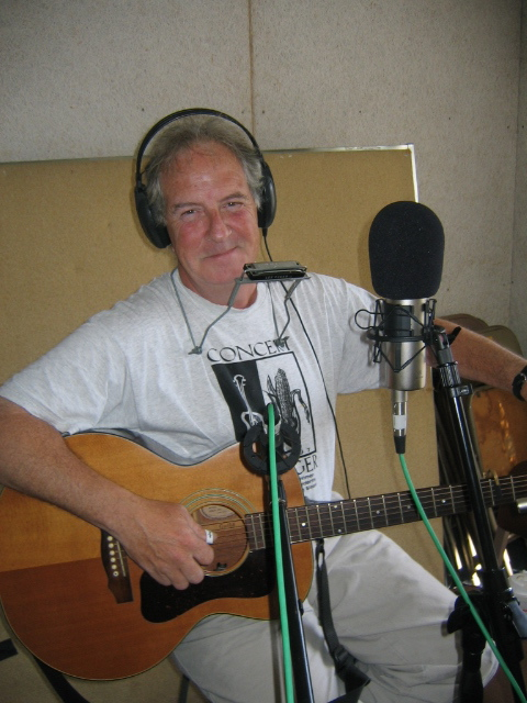 Somehow we had intended to get Cormac on the show earlier ( like two years ago,,,) but had to wait 'til now, here he is on June 24th 2005 .